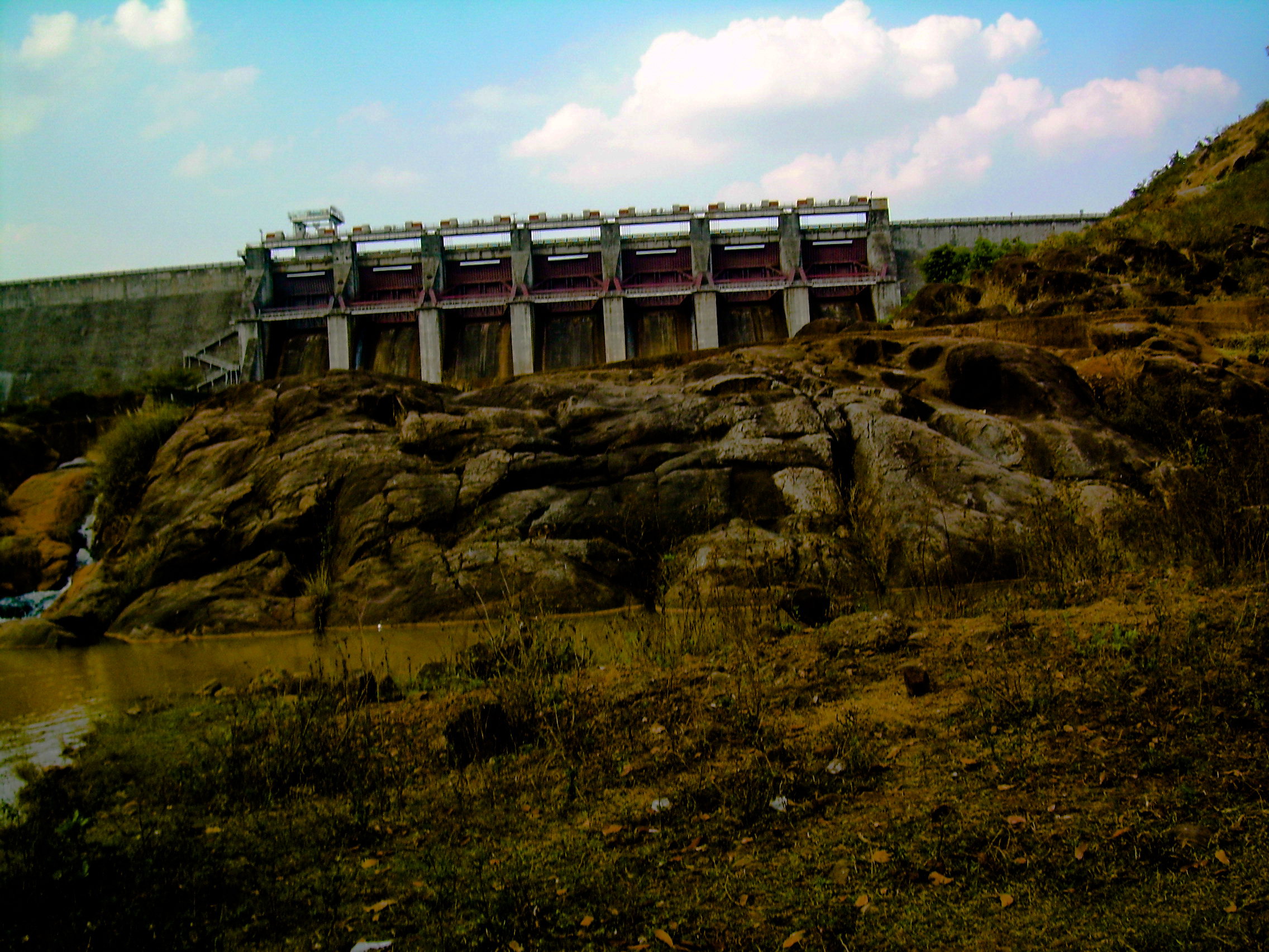 Indravati Dam pictured in 2012 at Mukhiguda,Odisha